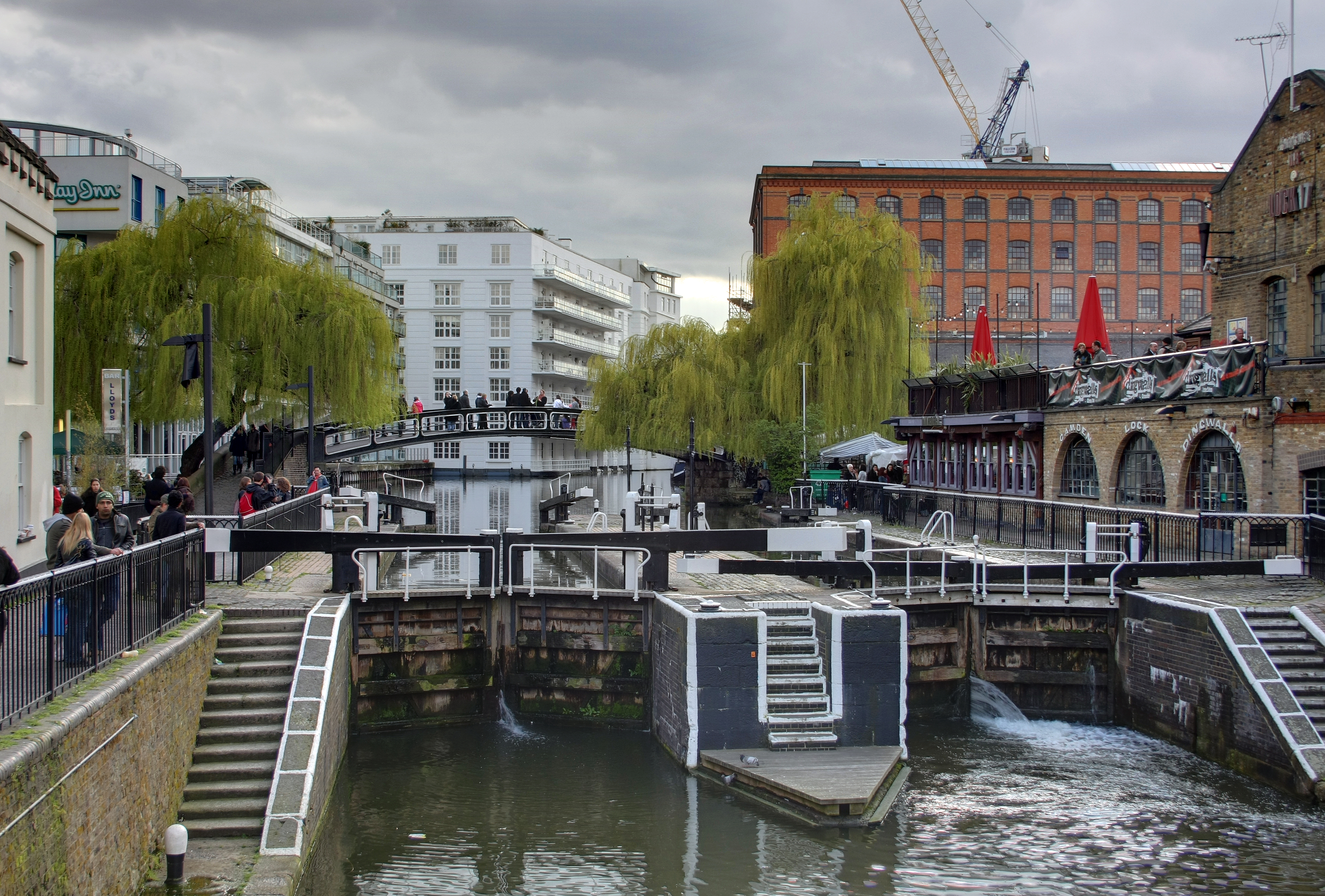 Camden Lock in London